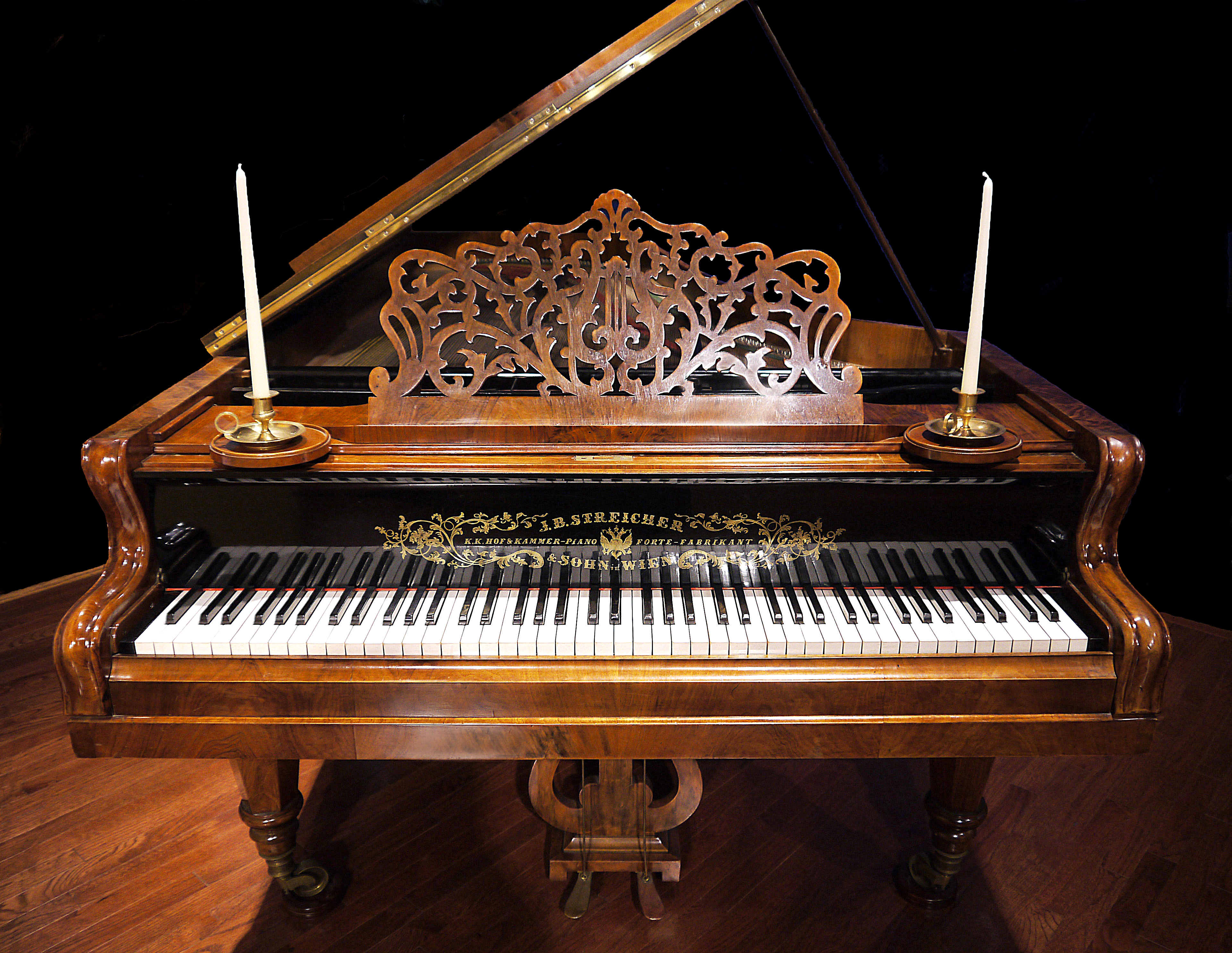 J.B.Streicher / K.K. Hof & Kammer Pianoforte Fabrikant / & Sohn in Wien [= Johann Baptist Streicher / Königliche Kaiserliche (Royal Imperial) Court & Home Piano Manufacturer / & Son in Vienna] This is one of many keyboard instruments in the Schubert Club's collection. The Schubert Club is located in the Landmark Center, downtown St. Paul, Minnesota.